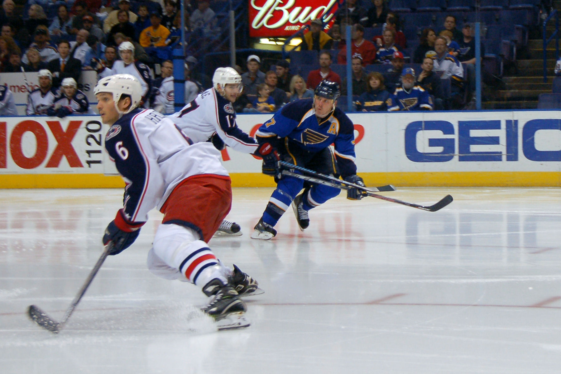 Keith Tkachuk about to break away for his 499th NHL goal, #6 Ron Hainsey and #17 Gilbert Brule can not stop him